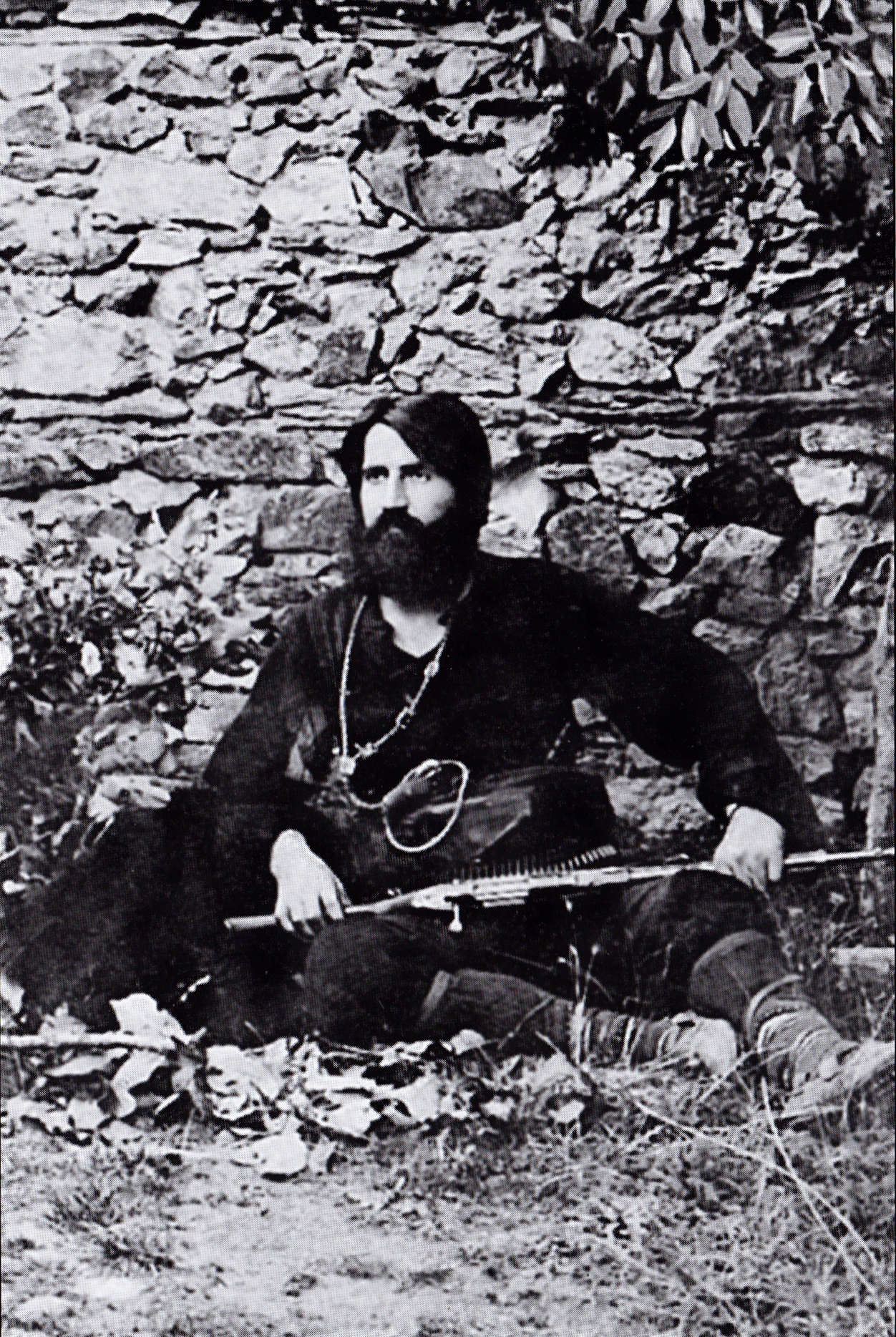 portrait of Petar Acev